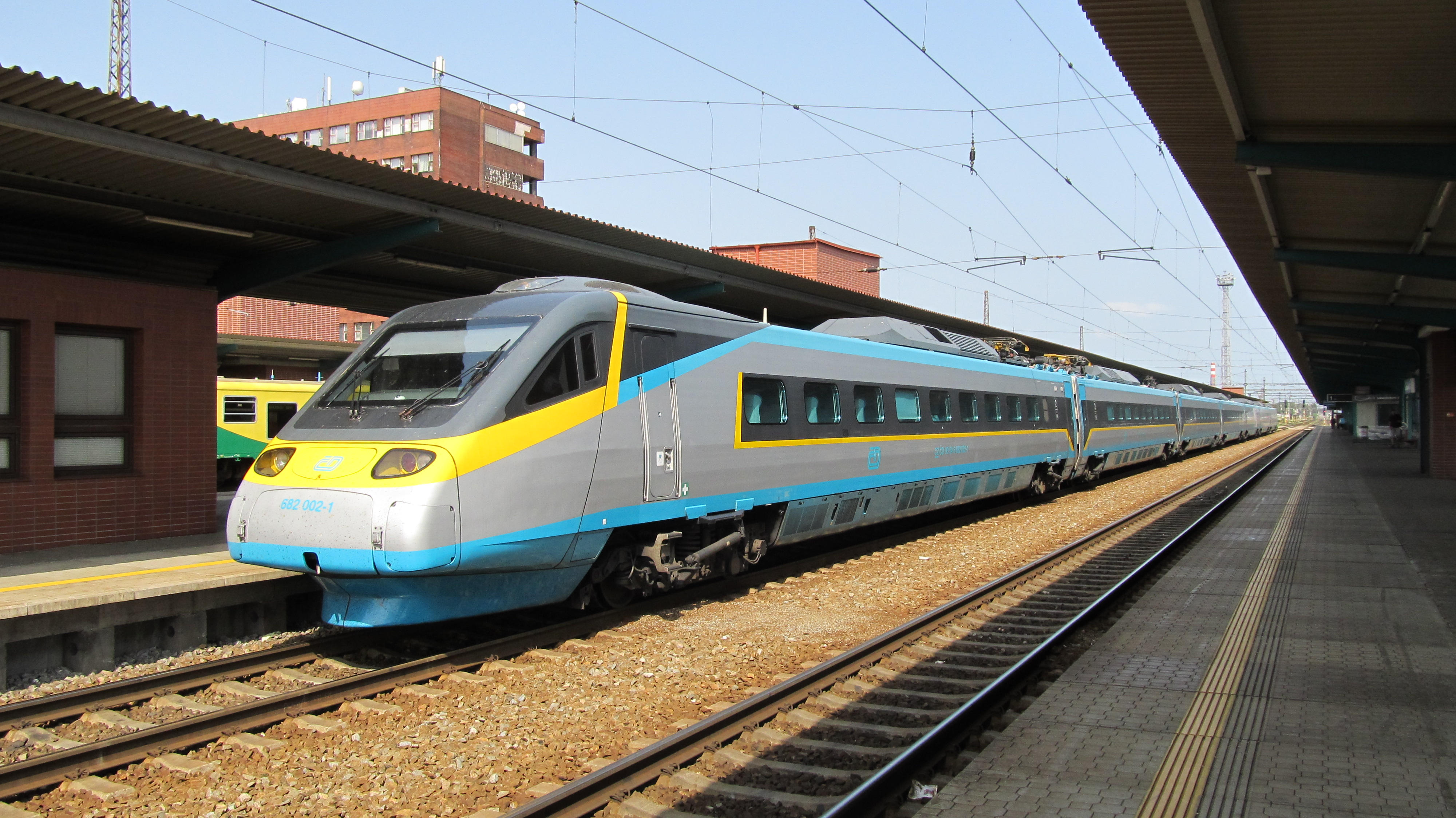 Electric unit 682.002-1 of České dráhy headed by joint SC 510 Pendolino at the main train station in Pardubice